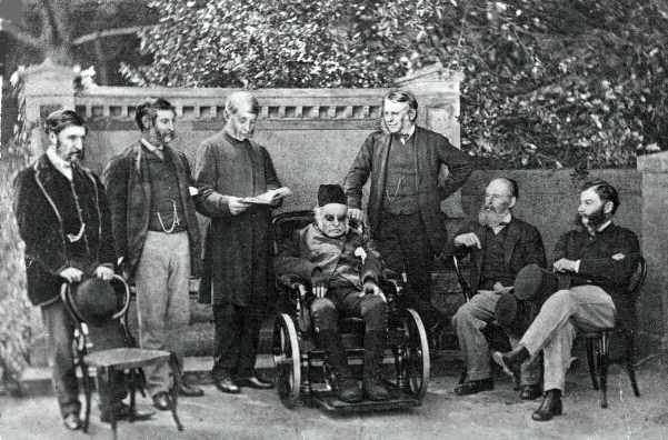 Photo of Bishop Henry Phillpotts with six of his sons, taken on the occasion of his 90th birthday